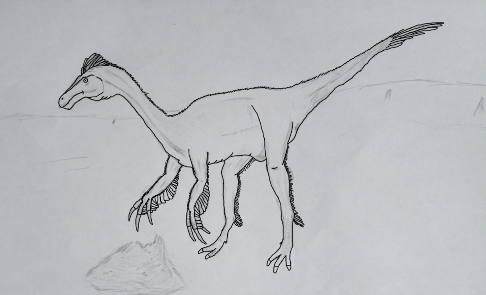 Martharaptor